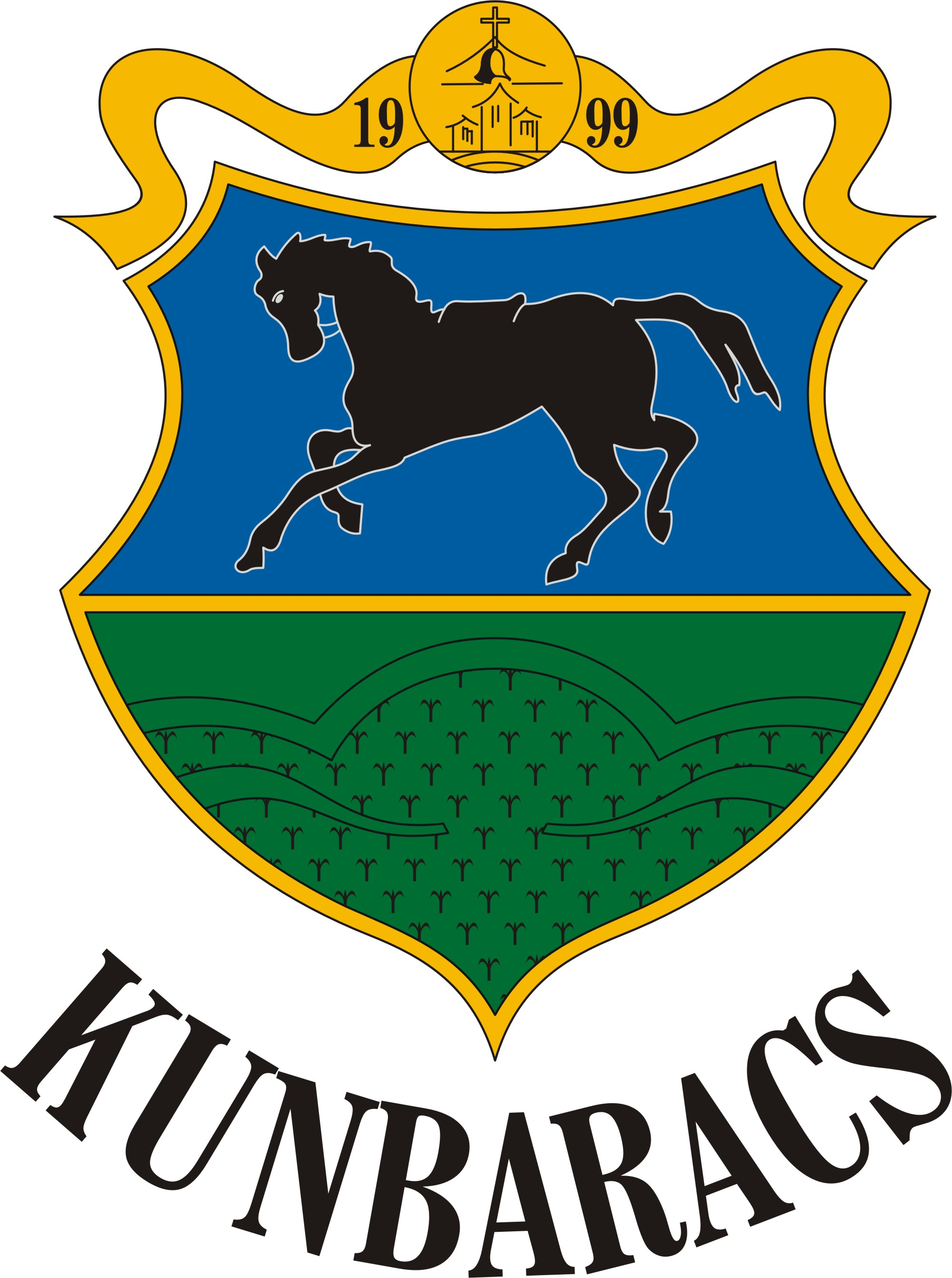 Coat of arms of Kunbaracs, Hungary